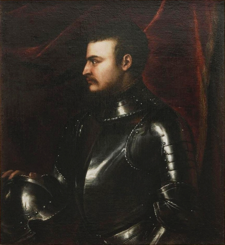 The portrait, based on the death mask of Giovanni delle Bande Nere, was commissioned by Pietro Aretino to Titian, but it wasn't painted. The commission then passed to the painter Gian Paolo Pace, said "l'Olmo", who painted the portrait between October and November 1545. Then Pietro Aretino donated it to the Duke Cosimo I de' Medici, Giovanni's son. The painting is remembered in Florence for the first time in 1559: in the Ricordanze by Giorgio Vasari, the artist remembers having copied it as fresco in the "Sala di Giovanni delle Bande Nere" in Palazzo Vecchio (painted between 1556 and 1559). In 1560 is described for the first time in the inventory of the "Guardaroba" of the Medicis, where it is attributed to Titian. The attribution persisted in all the inventories and subsequent studies, until 1905, with the studies of Georg Gronau before and then of Ettore Camesasca, who put together Pace's activities. The painting was used for many copies: among many others, in addition to those already mentioned by Vasari in the Palazzo Vecchio, you can remember the double portrait with his wife Maria Salviati (copy after Giovanni Battista Naldini, with variation on Giovanni's figure, inv. 1890 No. 5534), a copy of the seventeenth century (inv., 1890, No. 5360). Cat. No. 00129465